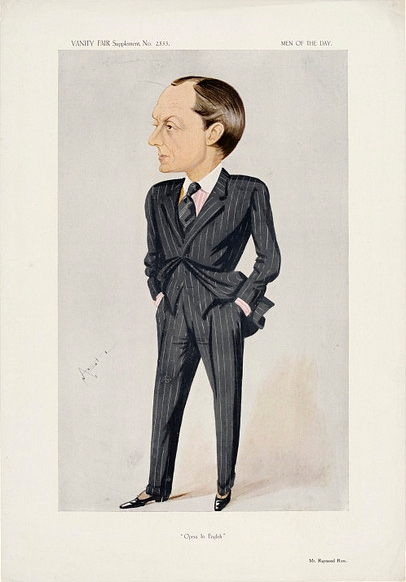 Caricature of Raymond Roze (1875-1920), English opera director and composer. Caption read "Opera in English"